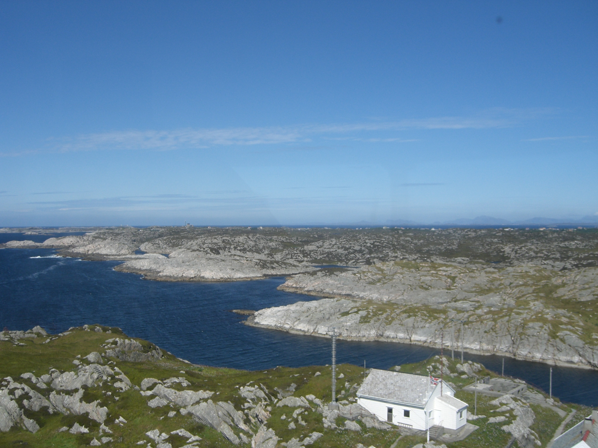 Fedje seen northwards from Hellisøy lighthouse.